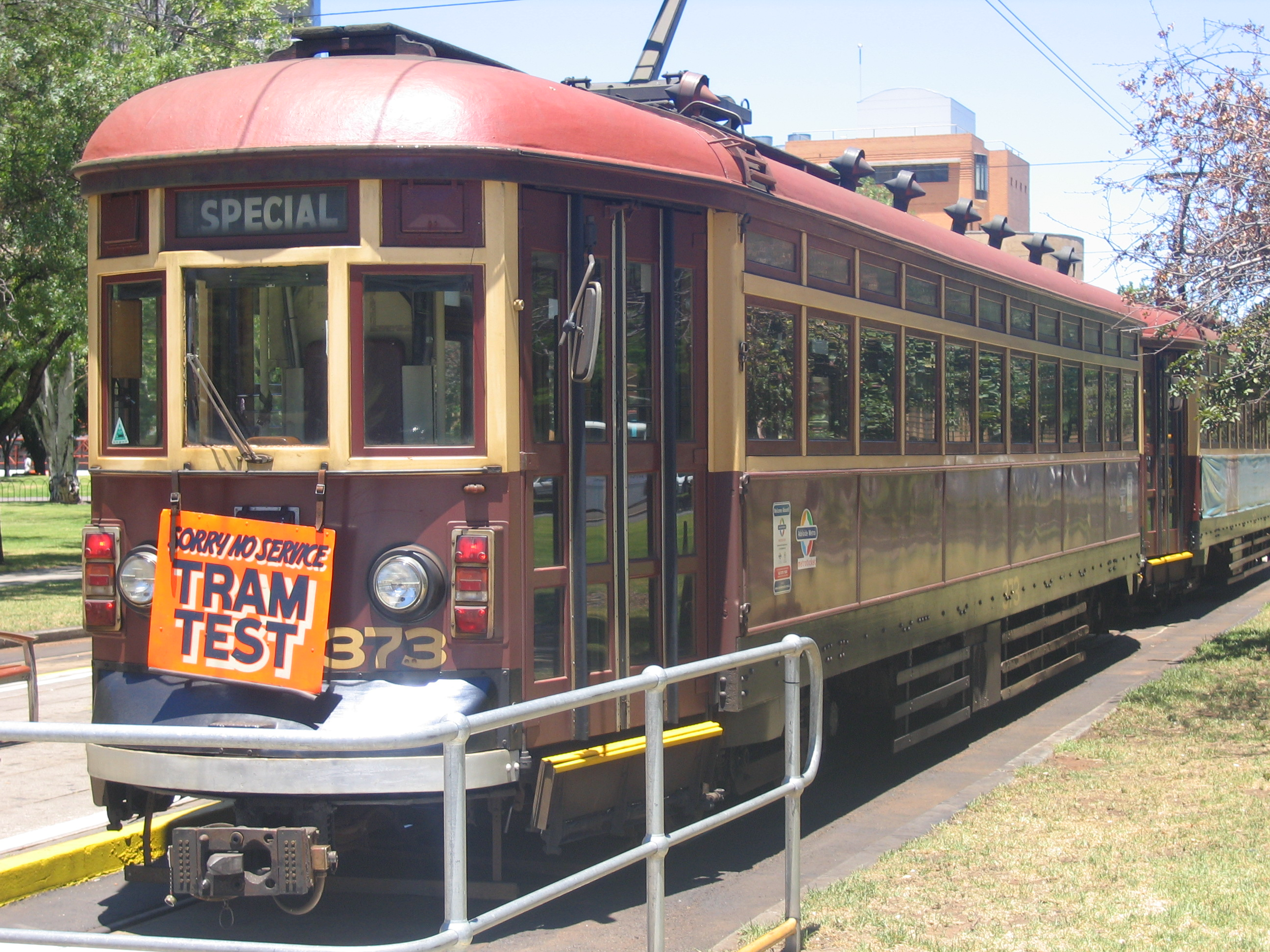 A depiction of one of the Glenelg trams in Victoria Square